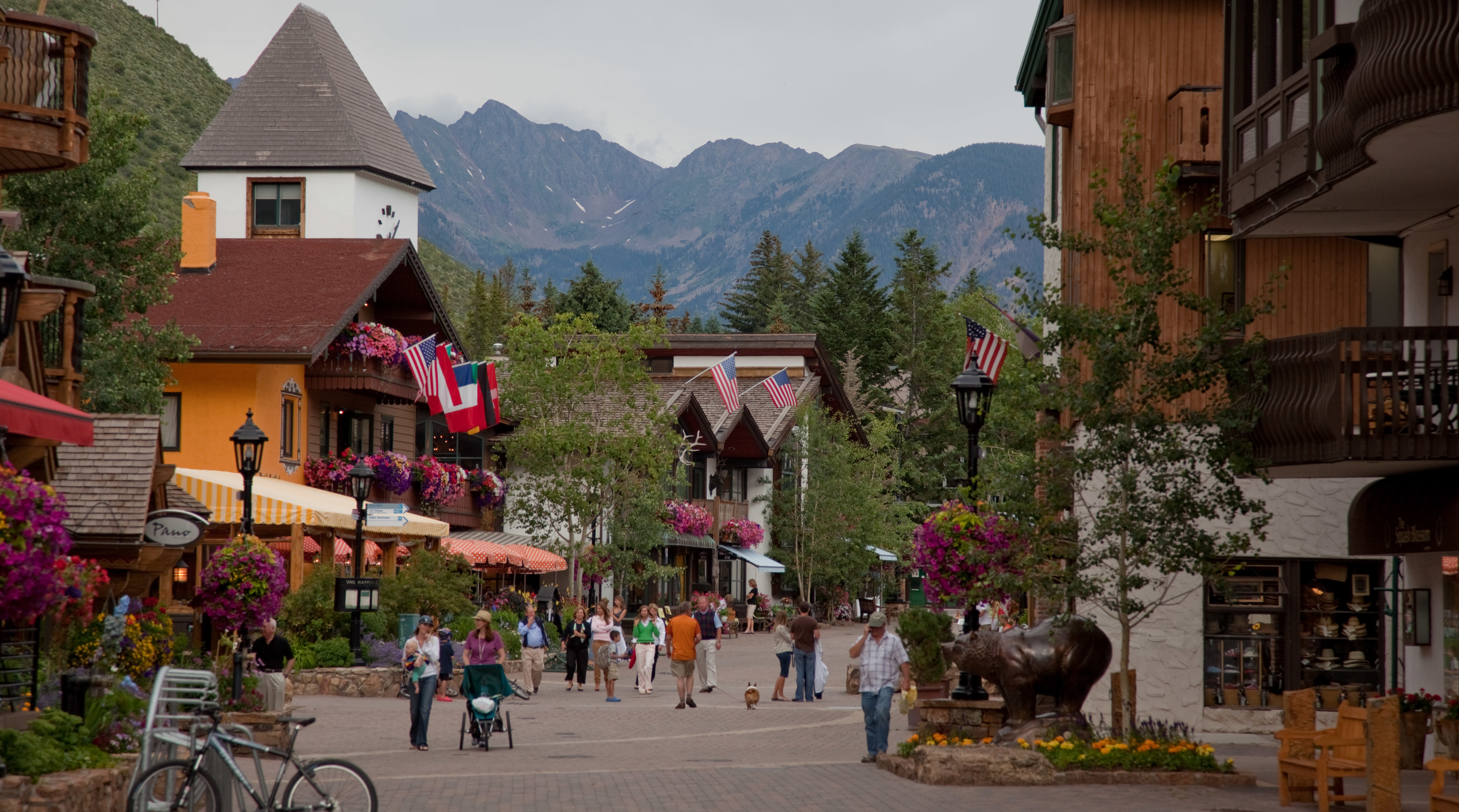 Gore Creek Drive, Vail, CO